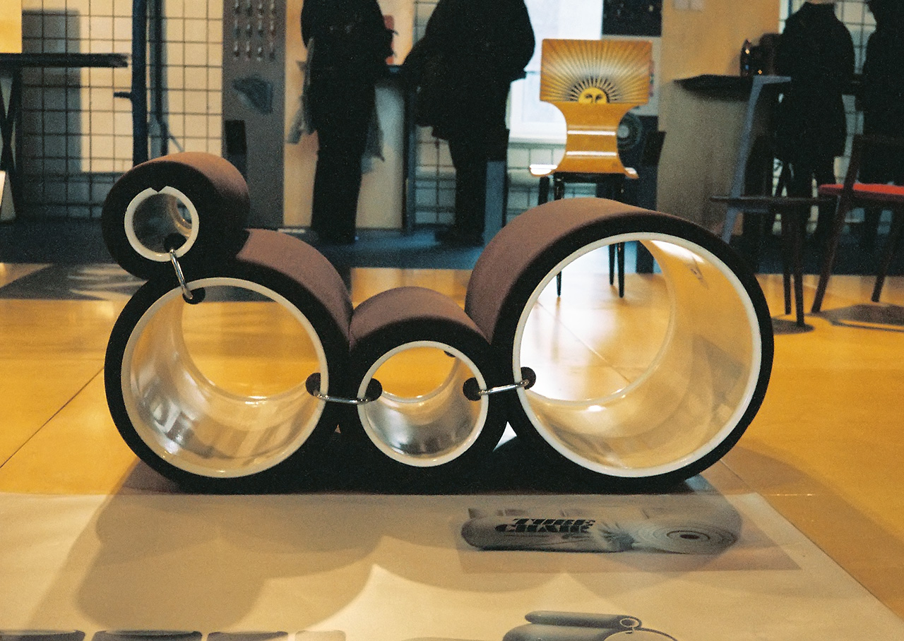 Designer: Joe Colombo Manufacturer: Flexform , Vitra Projected: 1969 Manufactured: 1970